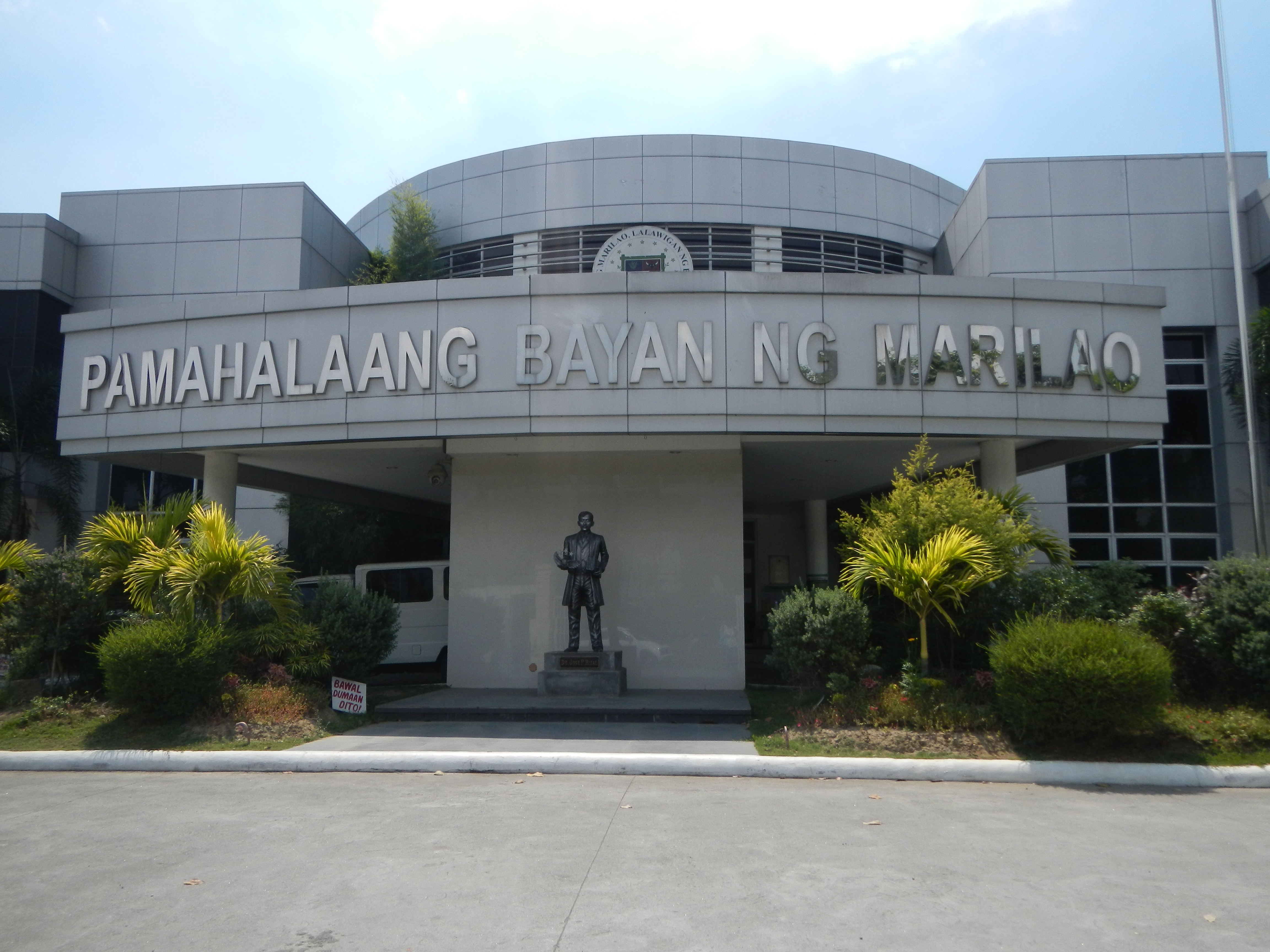 P30 Million Municipal Hall of Marilao, Bulacan, Interior and Exterior, 2015 version located in Marilao, Bulacan - Barangay Patubig, Marilao, Bulacan - ([1] Coordinates: 14°46'25"N 120°57'33"E [2] Imbestigador ng Bayan: The P30M town hall in Bulacan [3] Marilao, Bulacan[4][5] The New Town Hall was built from 2011 to July 12, 2012 when it was formally opened by Mayor Epifanio V. Guillermo and Juanito H. Santiago, Vice Mayor; the building was designed by Architect Ardel J. Santos[6] geographical coordinates: 14° 45' 28" North, 120° 56' 54" East [7]).